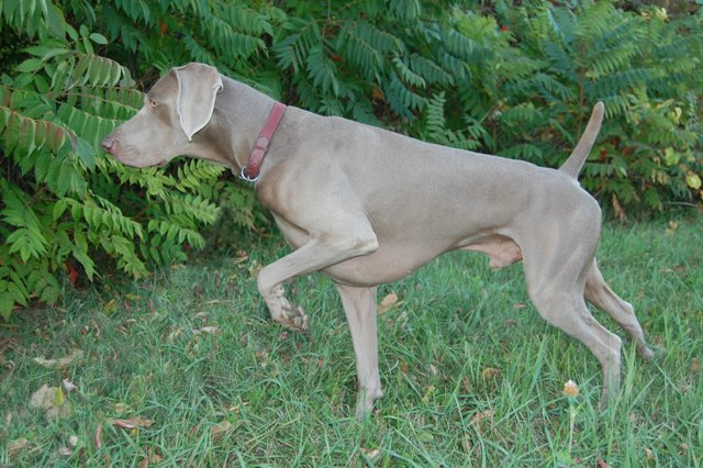 Weimaraner pointing